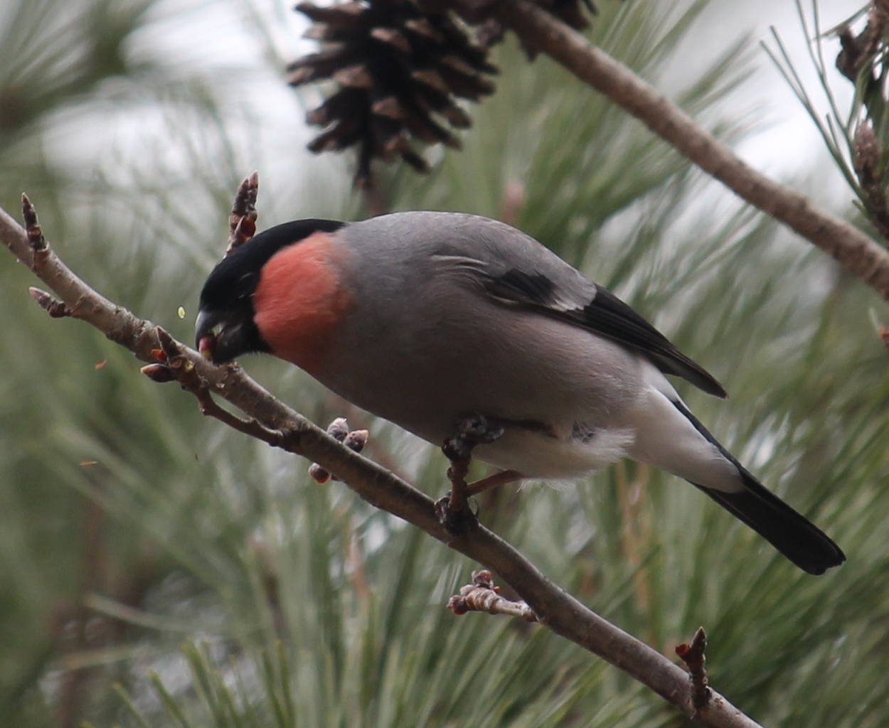 Pyrrhula pyrrhula rosacea, male eating bud of Prunus × yedoensis in Mount Tado (Yoro Mountains), Kuwana, Mie Prefecture, Japan.